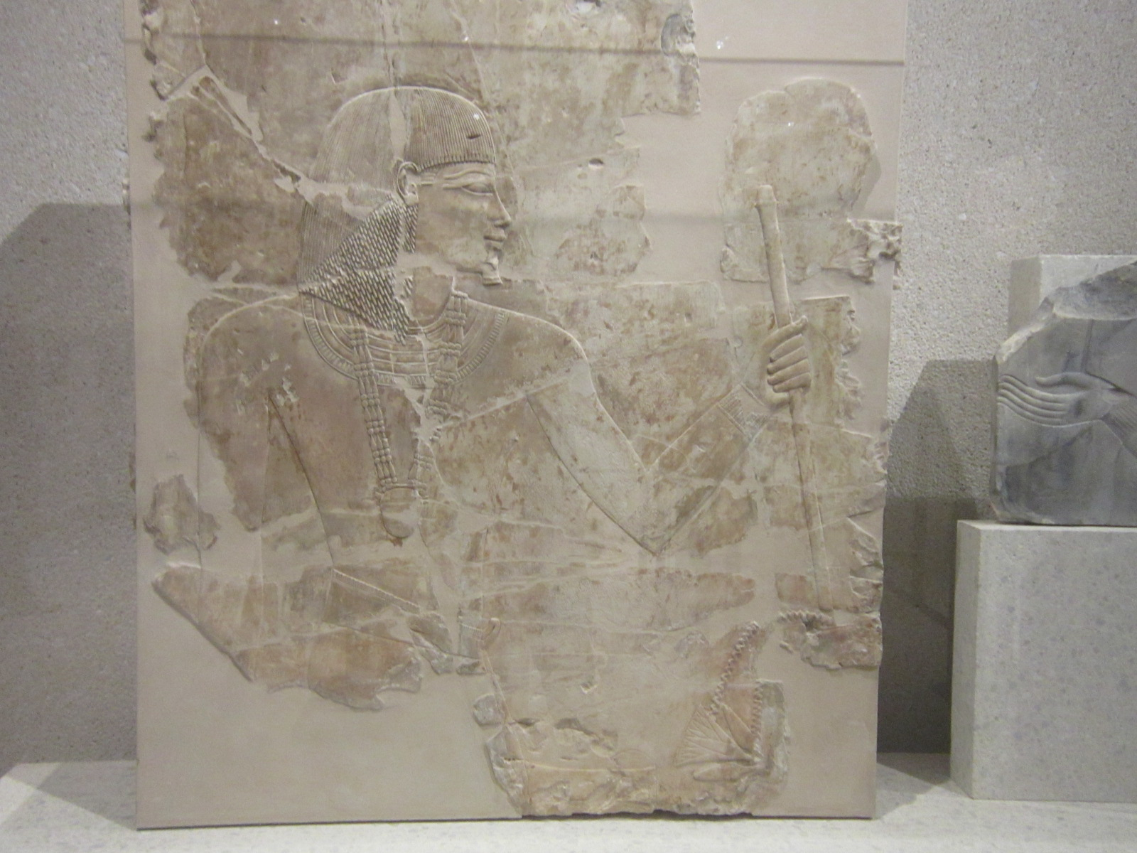 Relief from the tomb of Chaemhat with a representation of the deceased. 18th Dynasty, 1388-1351 BC. Limestone, h. 115 cm, w. 101 cm. Ägyptisches Museum Berlin